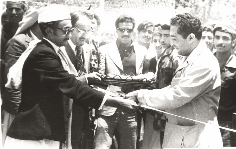 Al-Hamdi and Qadi Ali Aburijal while opening a new project